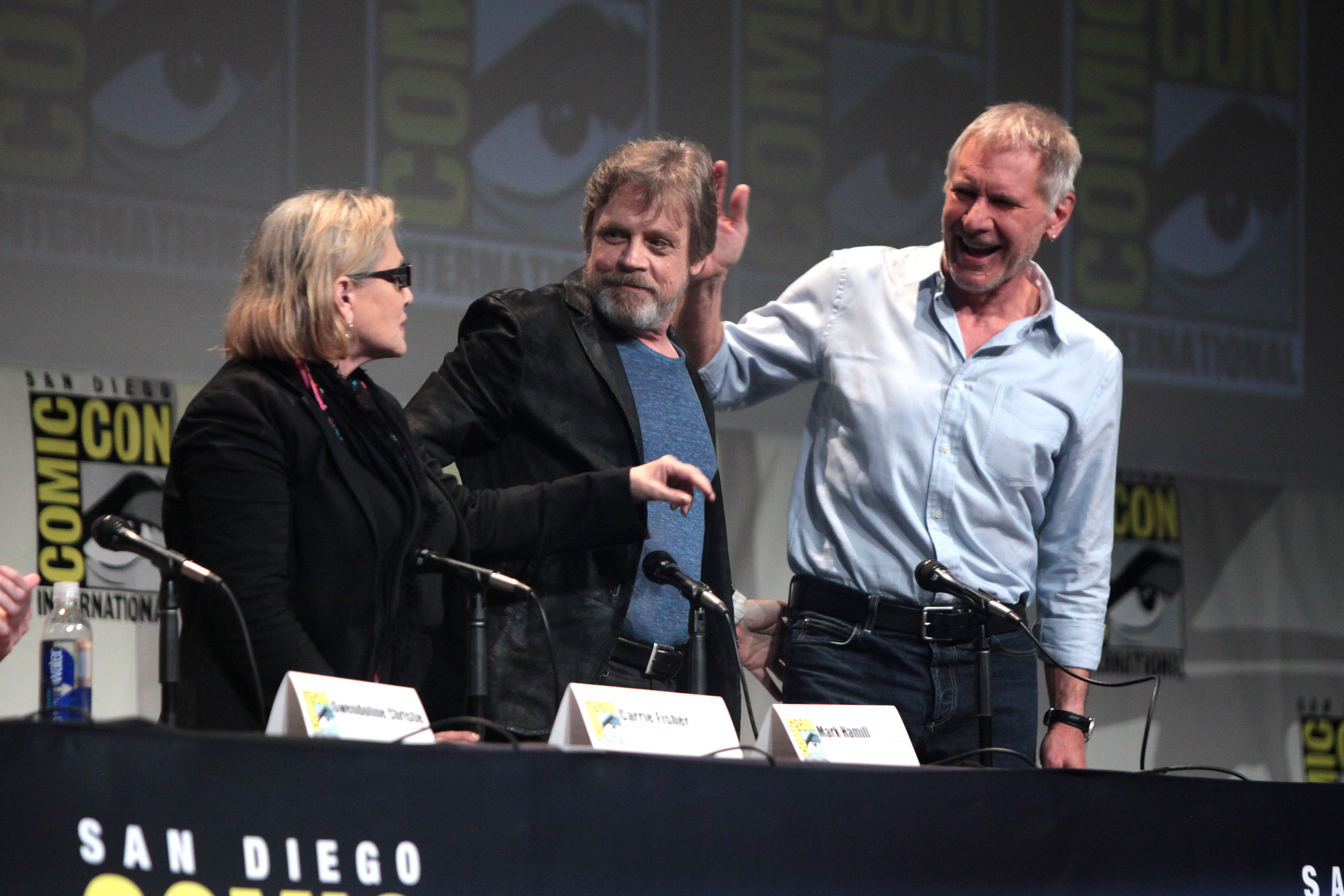 Carrie Fisher, Mark Hamill and Harrison Ford speaking at the 2015 San Diego Comic Con International, for "Star Wars: The Force Awakens", at the San Diego Convention Center in San Diego, California.